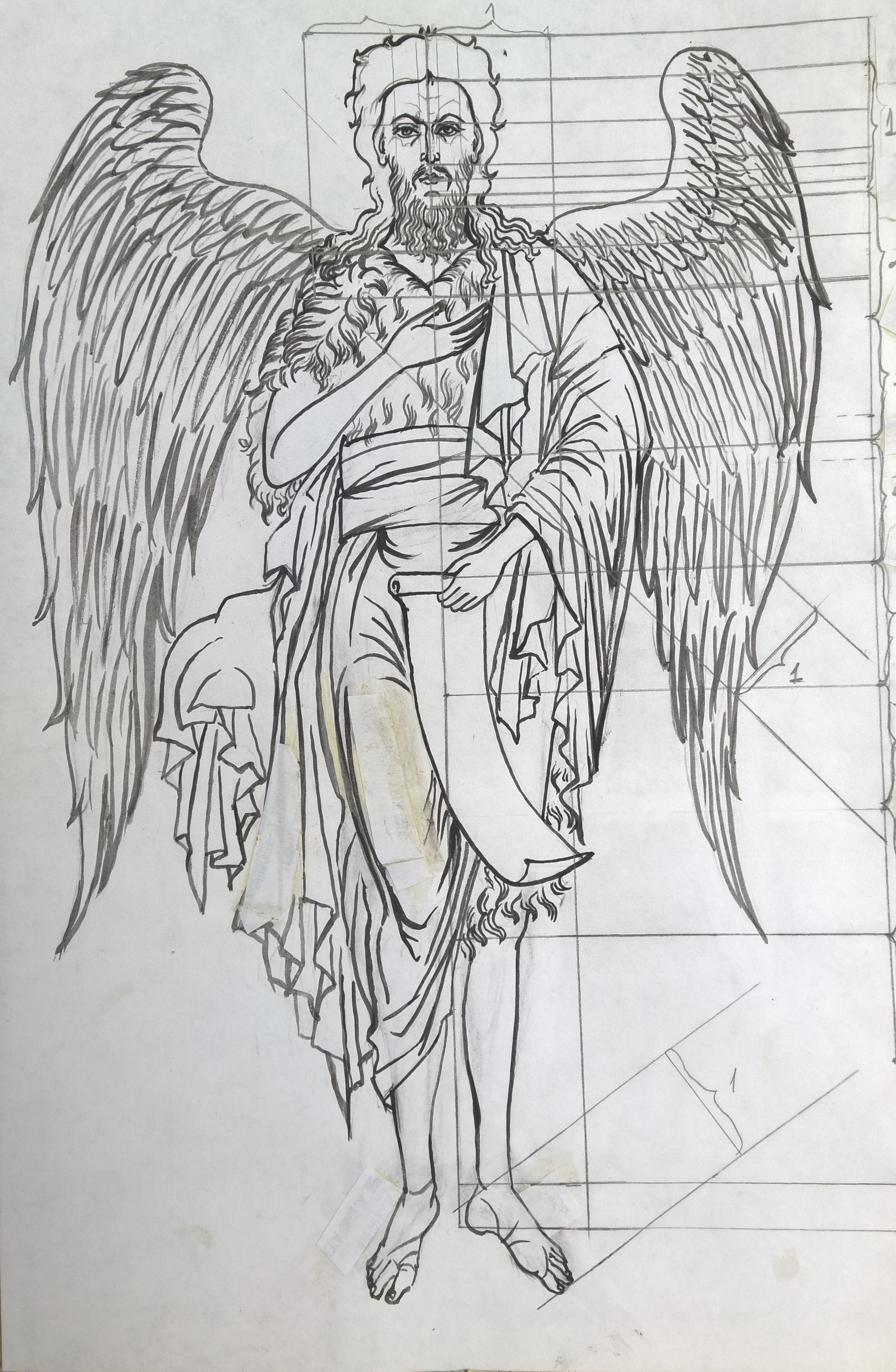 Proportions of the human body in iconography